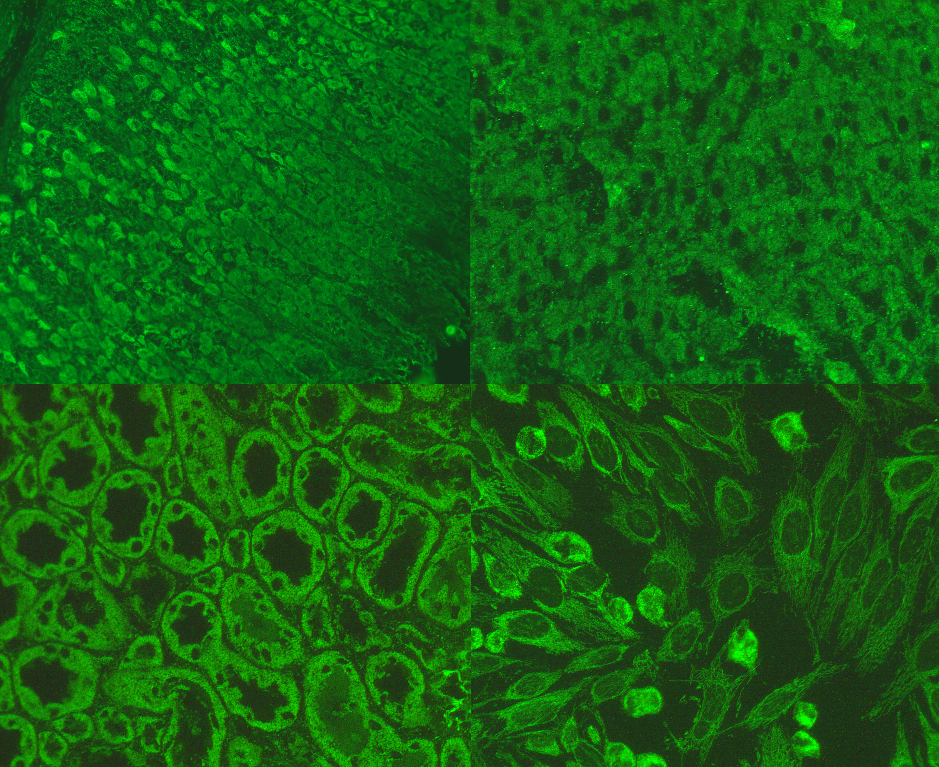 Mitrochondria are stained green in using anti-mitochondrial antibodies. Produced using serum from a patient on stomach (top left), liver (top right), kidney (bottom left) and HEP-20-10 cells (bottom right) with a FITC conjugate.